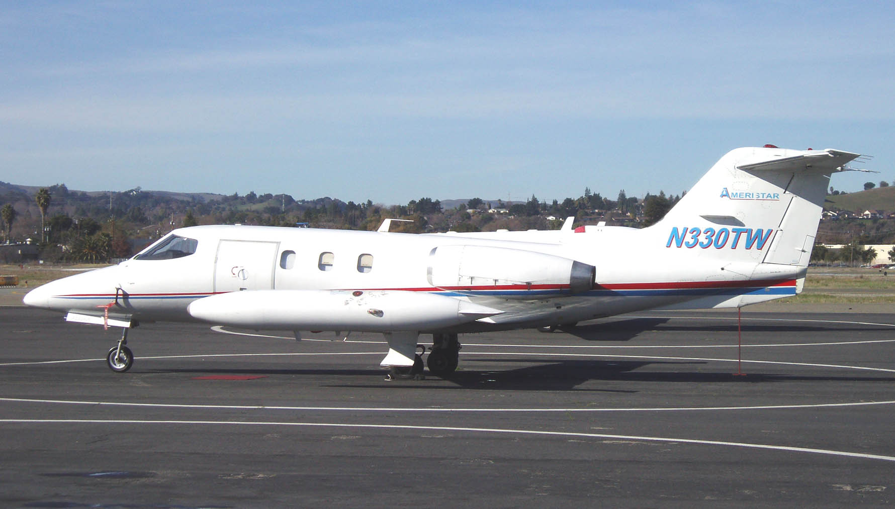 LearJetn330TW